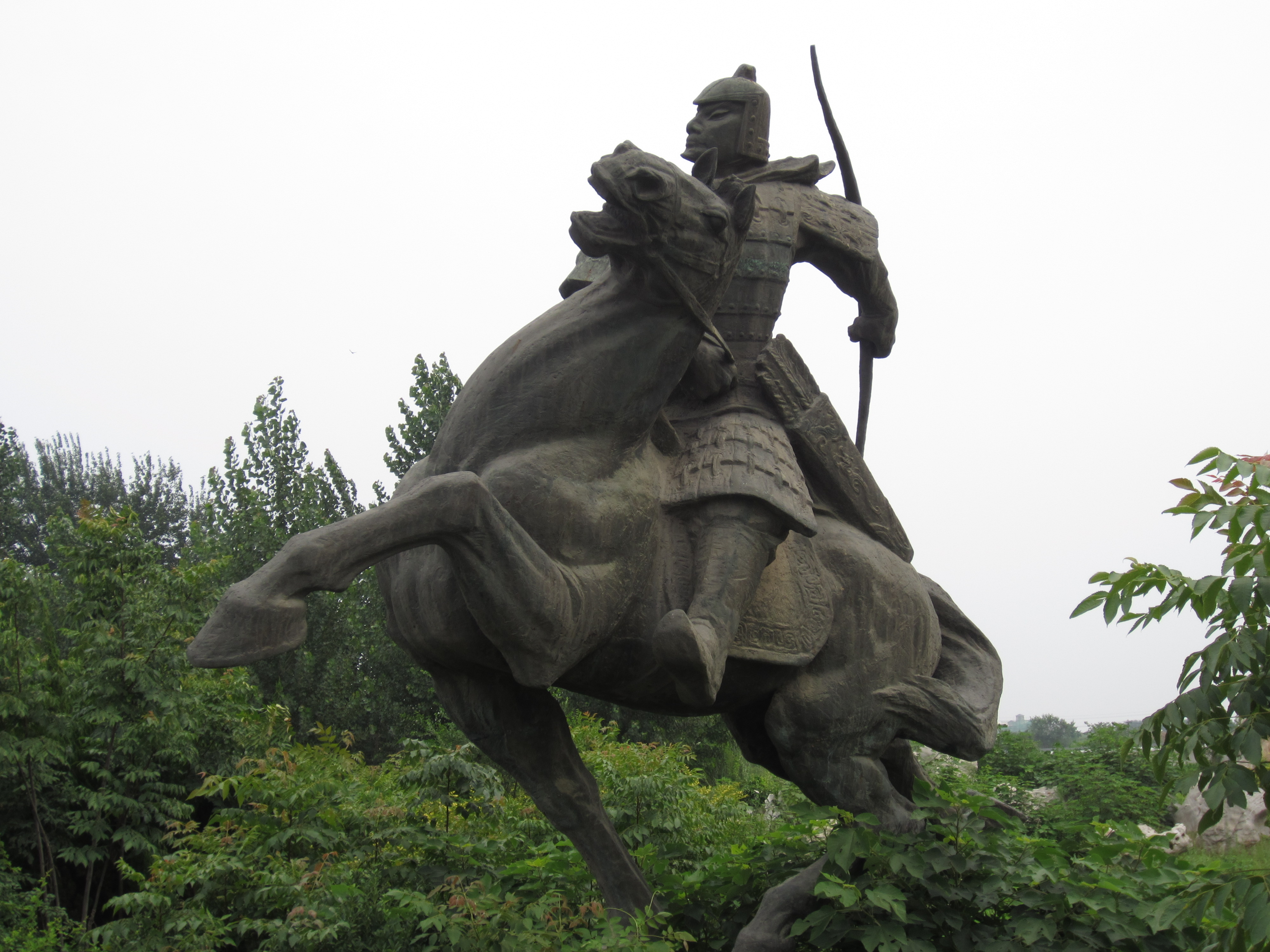 Hu fu qi she statue.